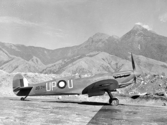 Goodenough Island, D'Entrecasteaux Islands, Papua. 20 July 1943. No. 79 Squadron RAAF Spitfire Mk VC No. A58-173, code UP-U (RAF JG740) with the nickname "Sweet F. A." on the port side engine cowling, in the dispersal area at Vivigani airfield in the shadow of Mount Nimadao and Mount Oiamadawa. This aircraft was flown by 386 Squadron Leader A. C. (Alan) Rawlinson DFC & Bar, Commanding Officer.